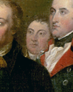 The scene of the surrender of the British General John Burgoyne at Saratoga, on October 17, 1777, was a turning point in the American Revolutionary War that prevented the British from dividing New England from the rest of the colonies. The central figure is the American General Horatio Gates, who refused to take the sword offered by General Burgoyne, and, treating him as a gentleman, invites him into his tent. All of the figures in the scene are portraits of specific officers. Trumbull planned this outdoor scene to contrast with the Declaration of Independence beside it.John Trumbull (1756–1843) was born in Connecticut, the son of the governor. After graduating from Harvard University, he served in the Continental Army under General Washington. He studied painting with Benjamin West in London and focused on history painting. Major figures in the painting (from left to right, beginning with mounted officer): American Captain Seymour of Connecticut (mounted) American Colonel Scammel of New Hampshire (in blue) British Major General William Phillips (British Army officer) (in red) British Lieutenant General John Burgoyne (in red) American Major General Horatio Gates (in blue) American Colonel Daniel Morgan (in white) A full key is available here. The dimensions of this oil painting on canvas are 365.76 cm by 548.64 cm (144.00 in by 216.00 in).